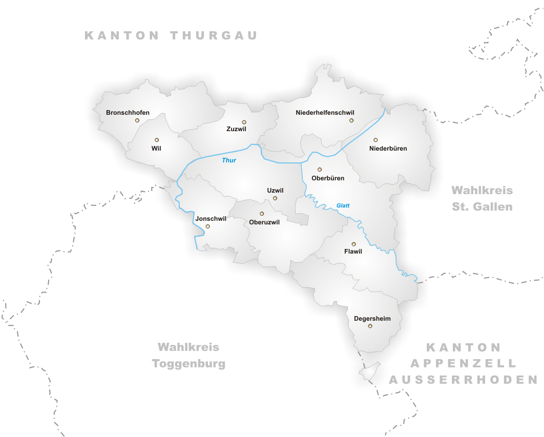 Municipalities of District Wil